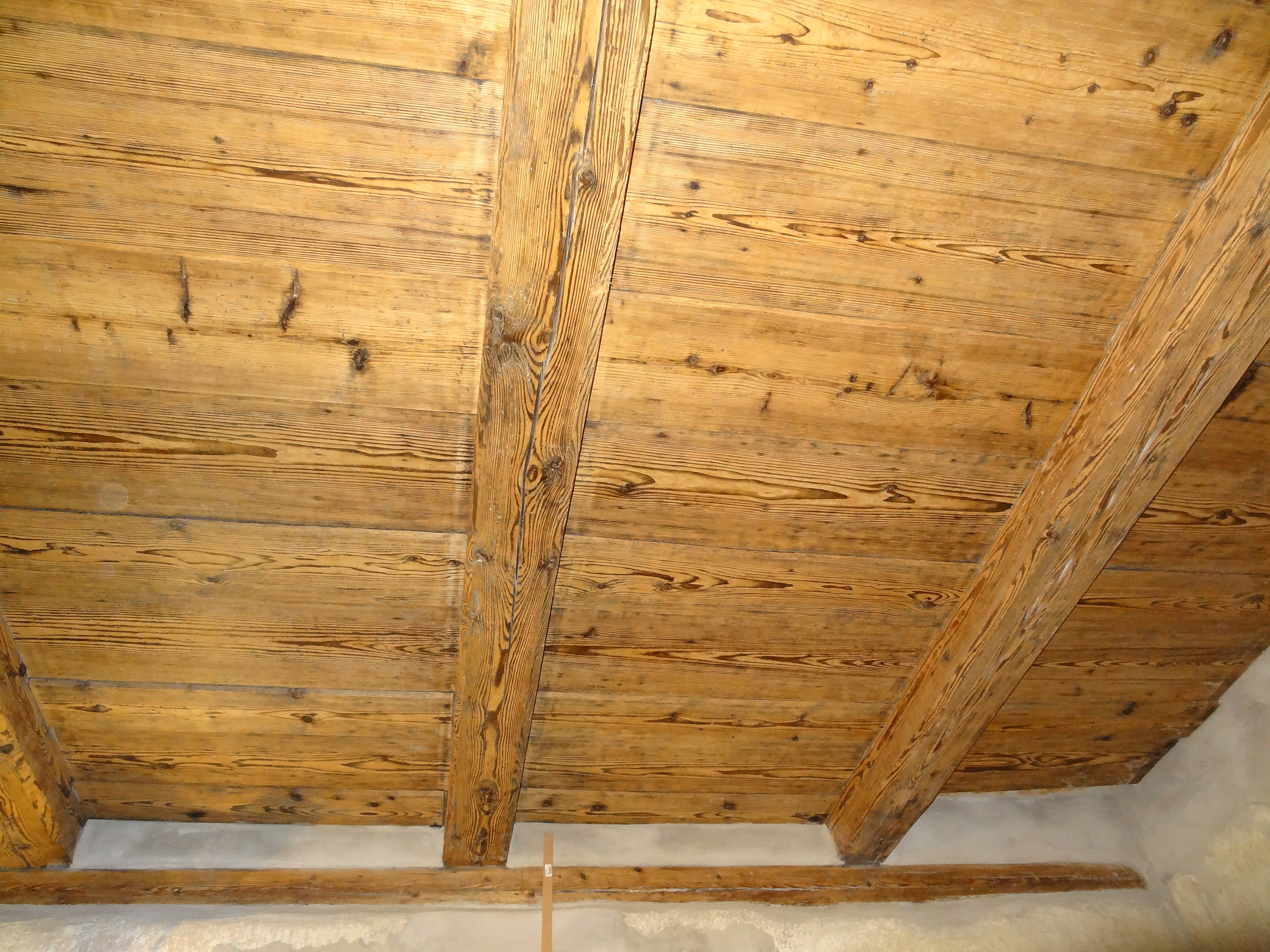 Kulturdenkmalhaus (= cultural heritage monument), Königstein, Saxony